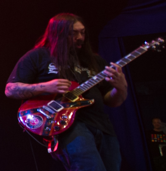 Roskilde Festival 2011